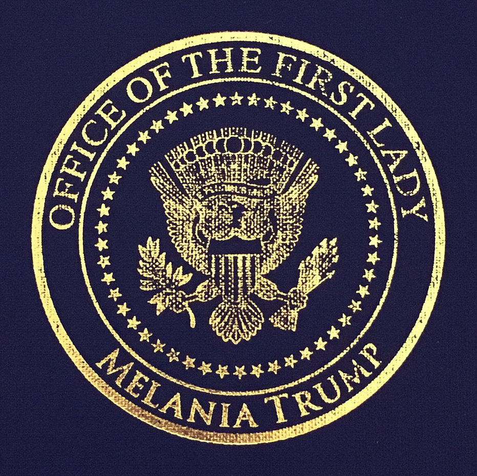 Office of the First Lady - Melania Trump, cropped and small white spot removed. This image was posted to Twitter and was accompanied by the following text: "It was a productive week with meetings, meetings & more meetings! Lots of work to be done in 2018 - looking forward to the year ahead as FLOTUS!"